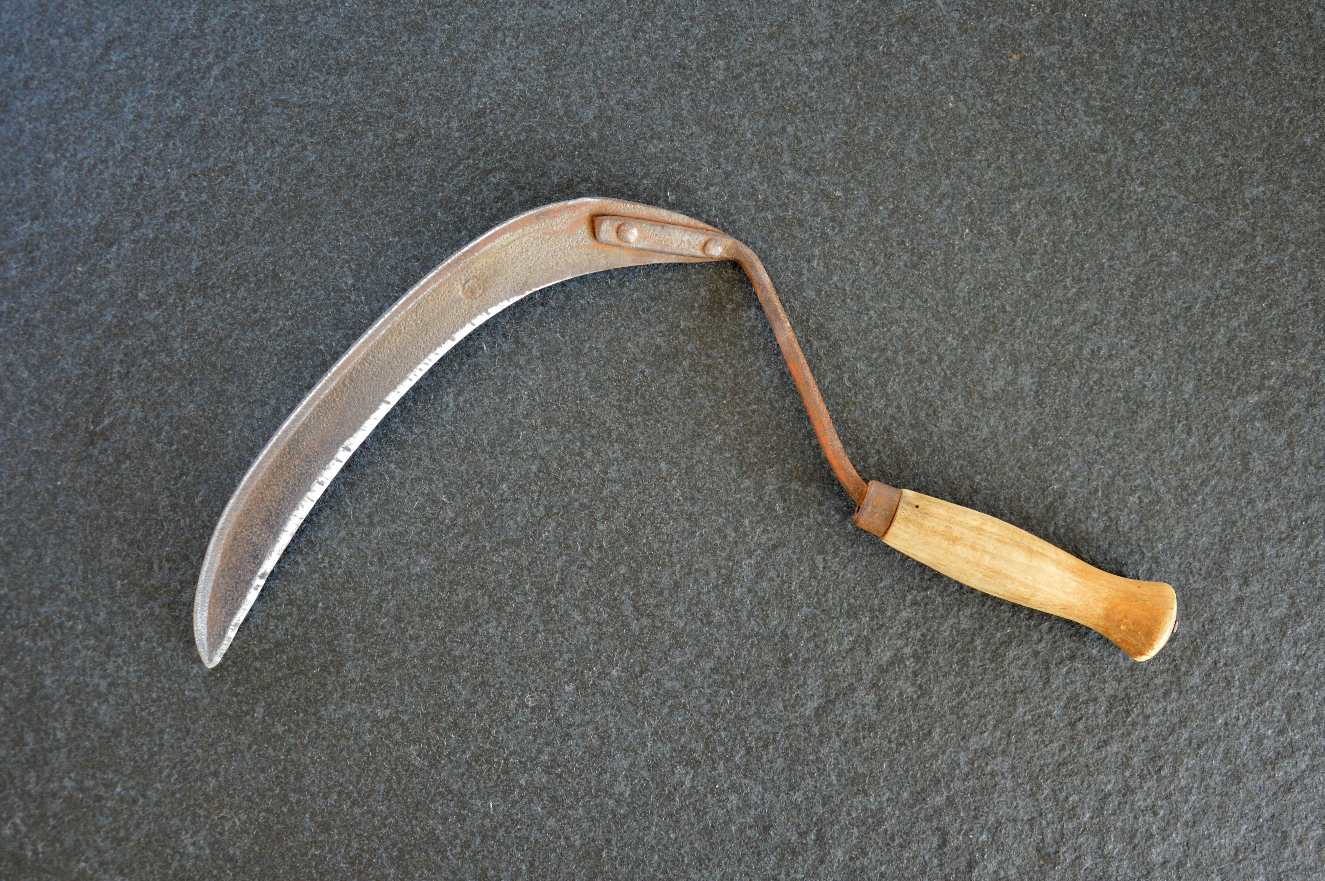 A somewhat rusty hand scythe, Belgium.